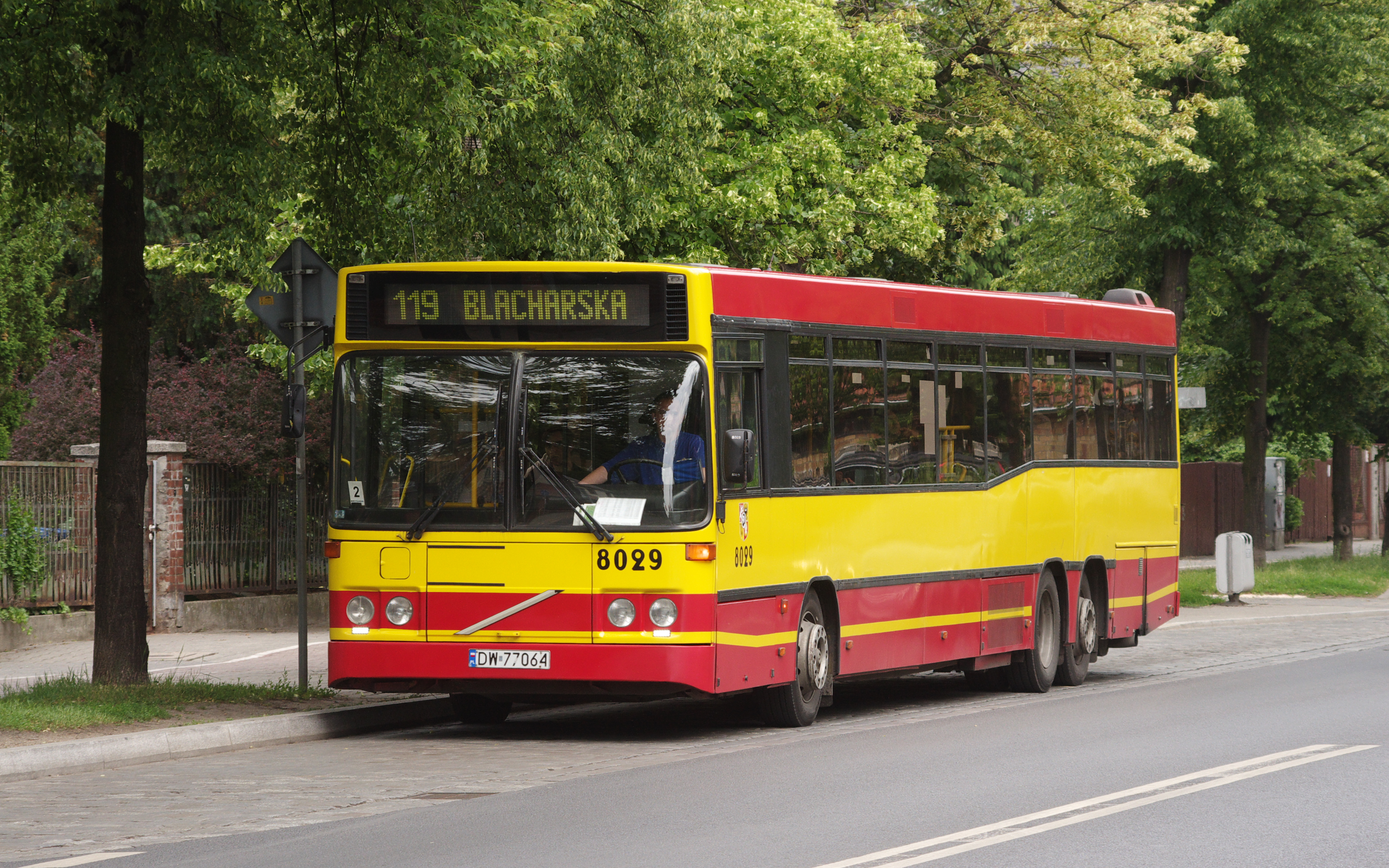 Volvo B10BLE 6x2 bus (#8029, reg. DW 77064, built 1998) in service for MPK Wrocław in June 2012, Wrocław, Poland.